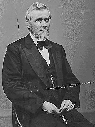 Seth Wakeman, New York Congressman